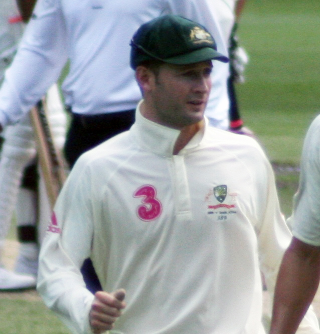 A cricket shot from Privatemusings, taken at the third day of the SCG Test between Australia and South Africa.